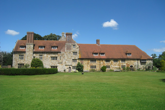 Michelham Priory, Upper Dicker, East Sussex